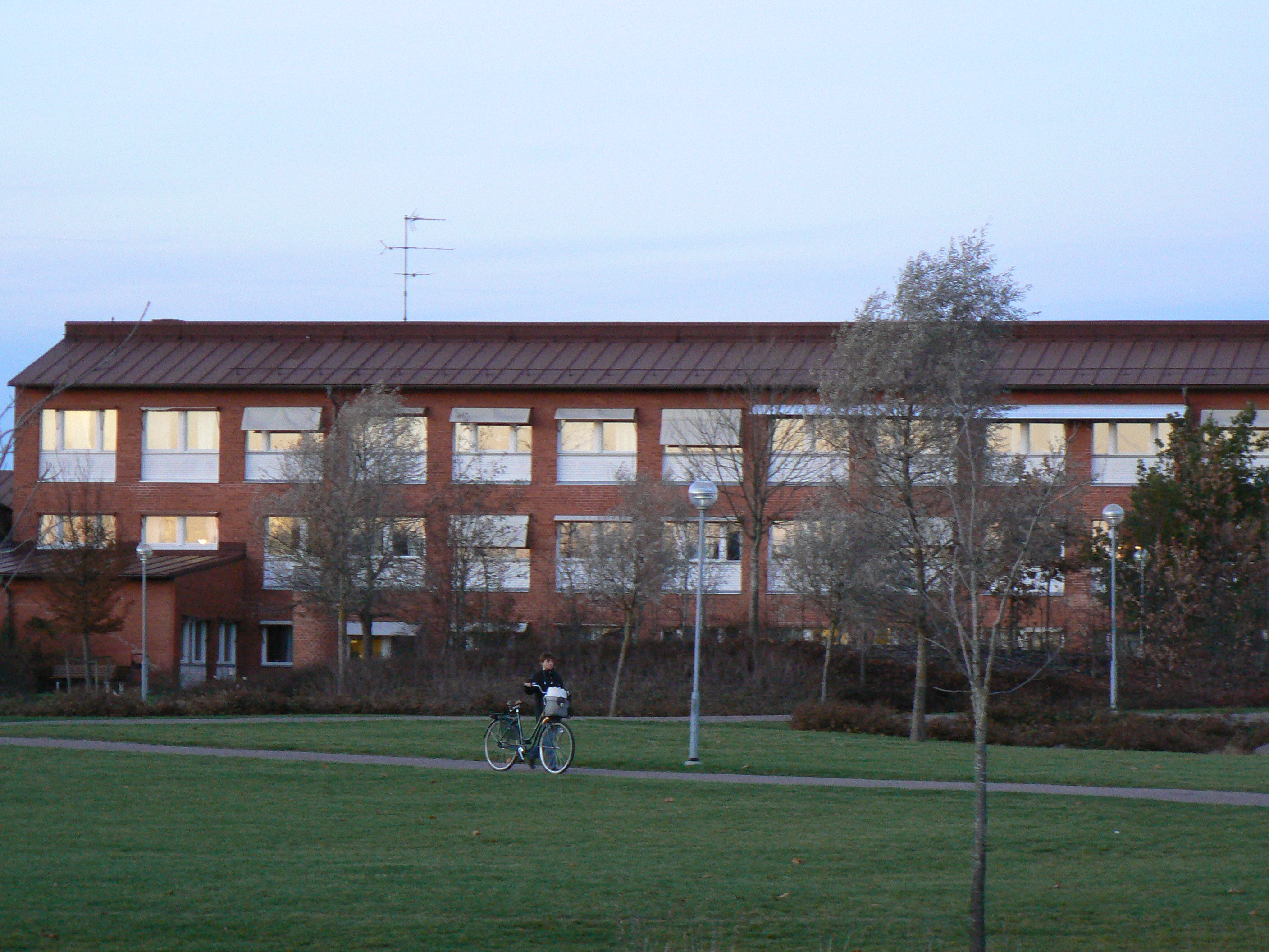 The Tema Building at Linköping University. Photo by Skvattram 2006-11-09.